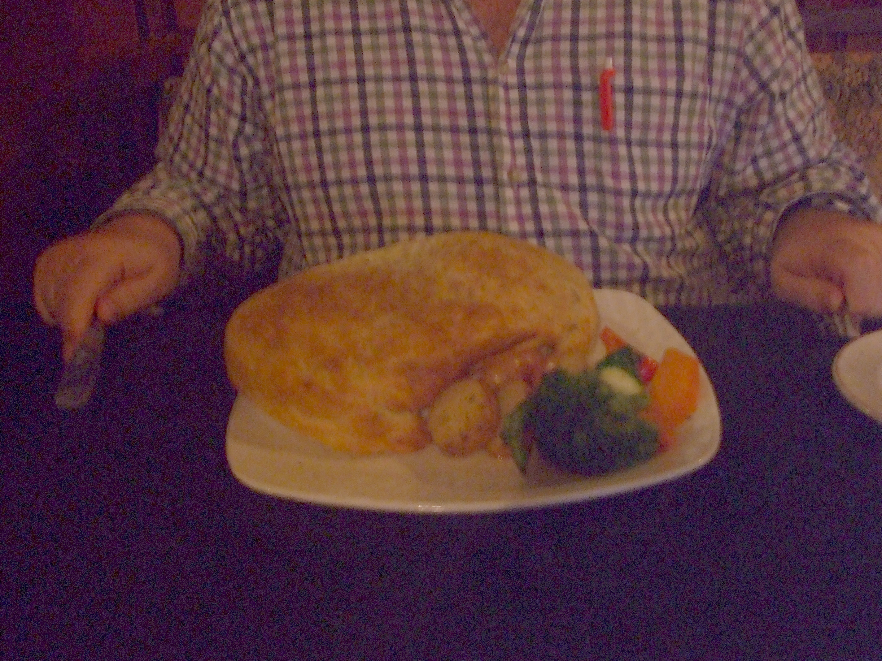 Flipper pie is a traditional Eastern Canadian meat pie made from harp seal flippers.